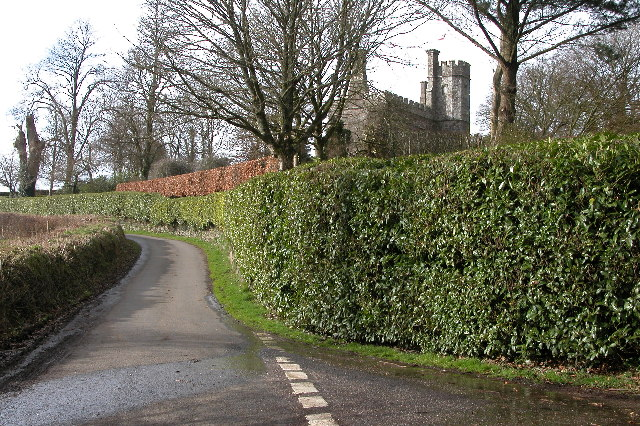 Affeton Castle, Affeton Barton. This castle appears to be a private home.